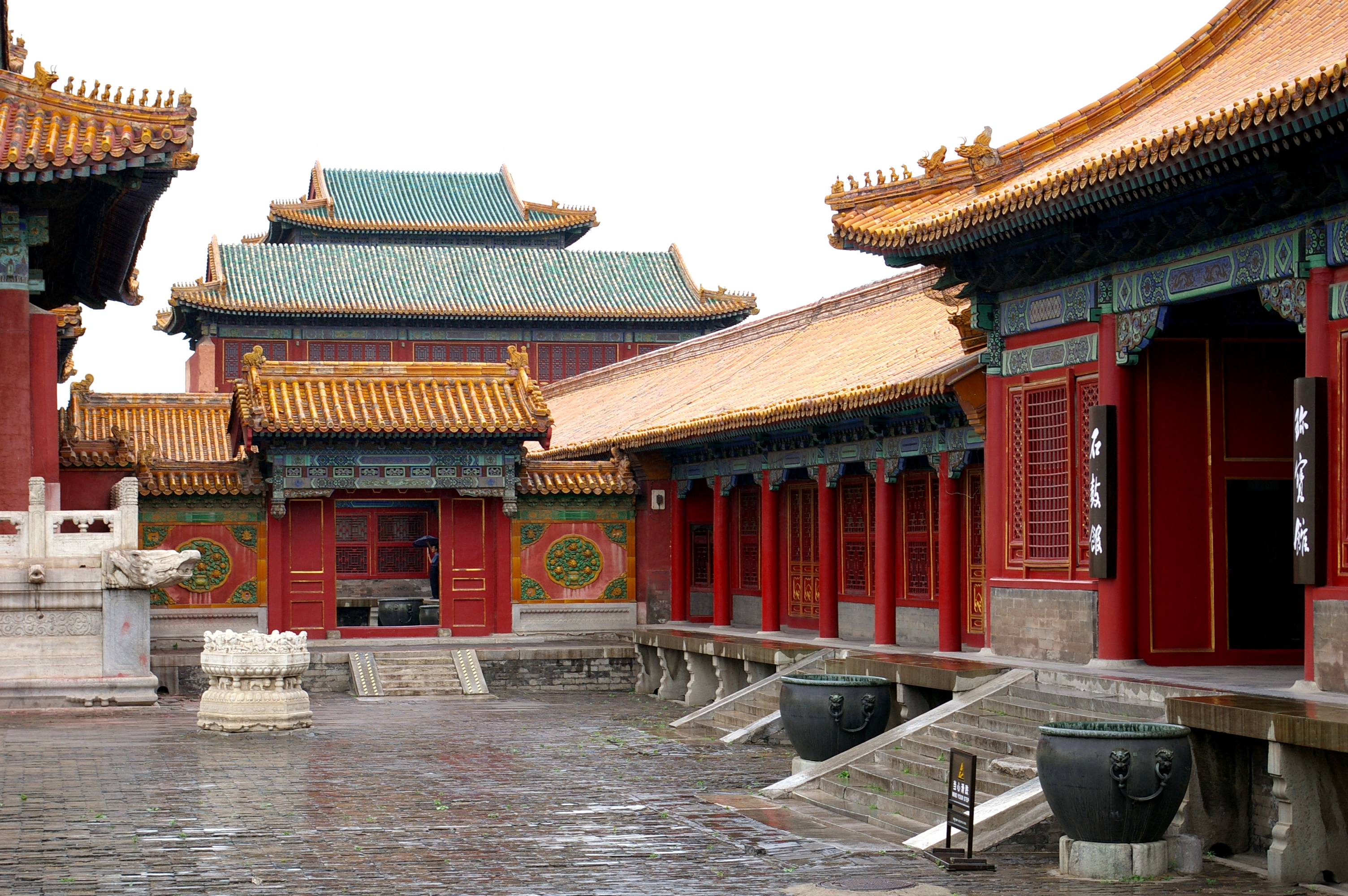 Forbidden City in Beijing